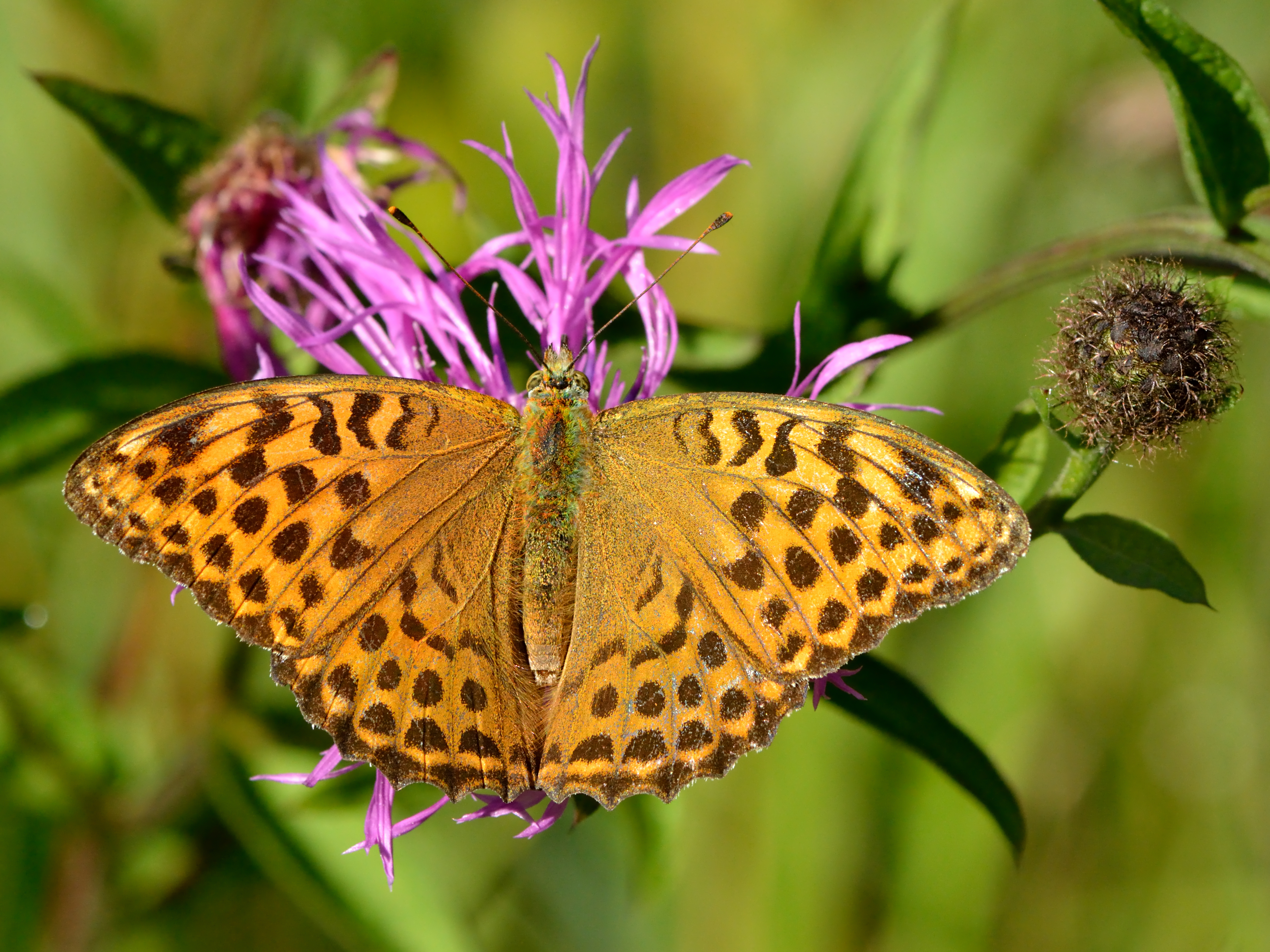 Female silver-washed fritillary (Argynnis paphia) on the wig knapweed (Centaurea phrygia). Keila, Northwestern Estonia.